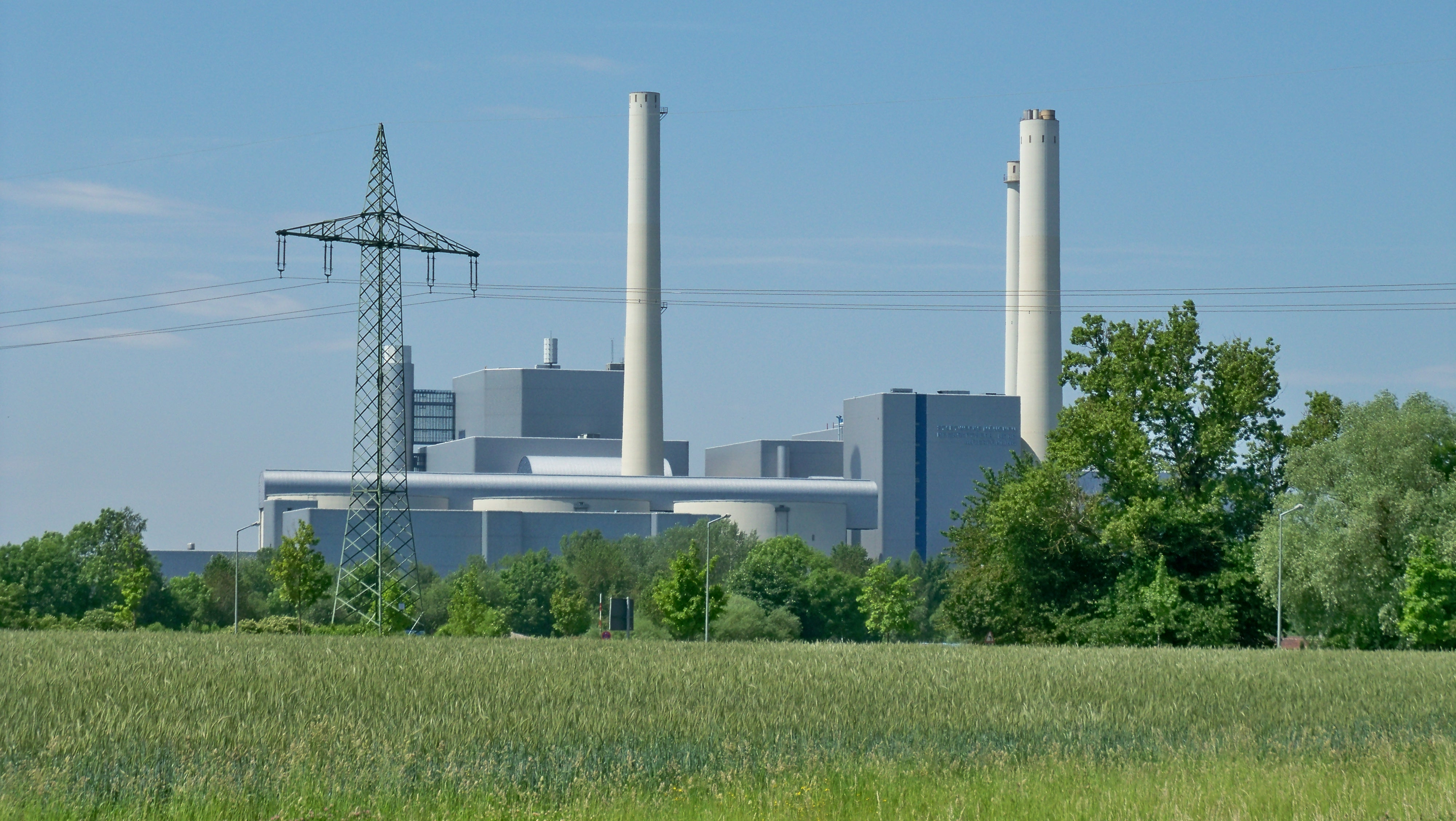 Heizkraftwerk Nord of Stadtwerke München in Unterföhring, Germany.